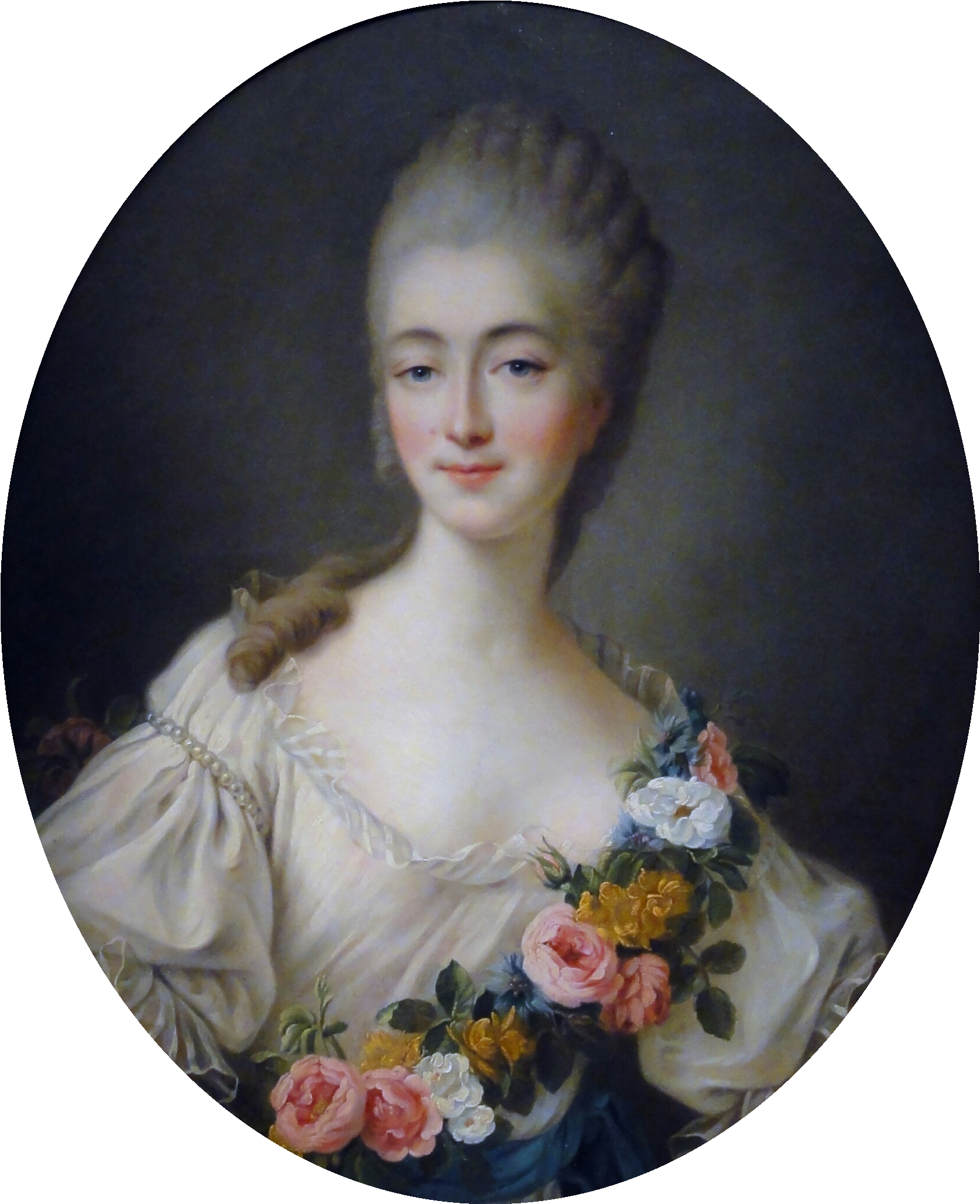 Portrait of Madame du Barry as Flora